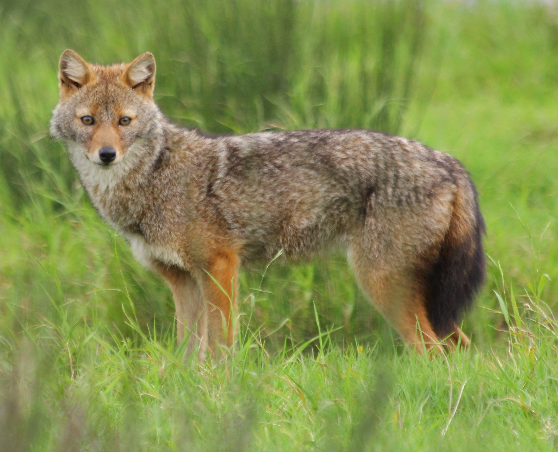 This was take in the Upper Bhavani region, Nilgiris district, Tamil Nadu, India.